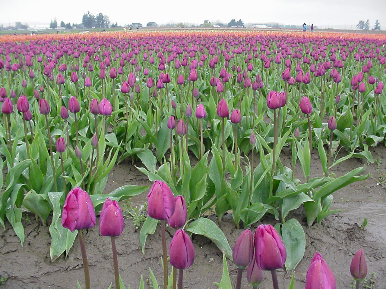 Tulip field, Mount Vernon Tulip Festival in May of 2001